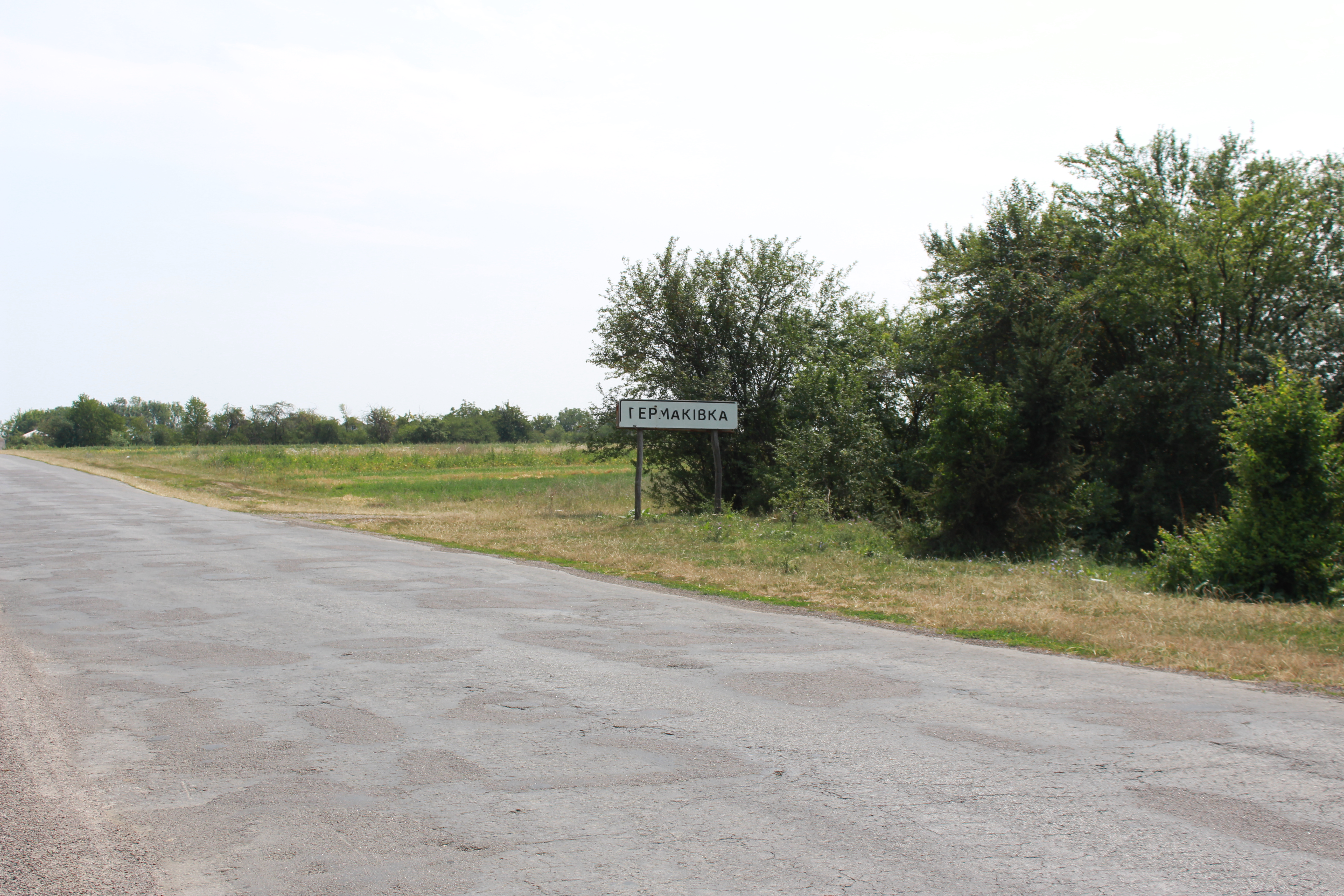 Entrance to the village Hermakivka, route T2002